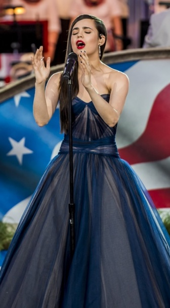 WASHINGTON, DC (July 3, 2017)--Performers, support staff and attendees gather on the Capitol grounds for dress rehearsal of the annual "A Capitol Fourth" concert July 3, 2017. “A Capitol Fourth” is a free annual concert performed on the west lawn of the United States Capitol Building in Washington, D.C., in celebration of Independence Day each July 4. Broadcast live on PBS, NPR and the American Forces Network and presented by WETA, the concert is viewed and heard by millions across the United States and the world, as well as attended by more than half a million people at the Capitol. The concert traditionally features elements of the 3rd U.S. Infantry Regiment (The Old Guard), the United States Army Presidential Salute Guns Battery, the U.S. Army Band (Pershing's Own), the National Symphony Orchestra and the Choral Arts Society of Washington, who provide much of the music during the show for various celebrity artists. A celebrity host and a variety of guests entertain and pay tribute to their country throughout the evening. (Department of Defense photos by Reese Brown)